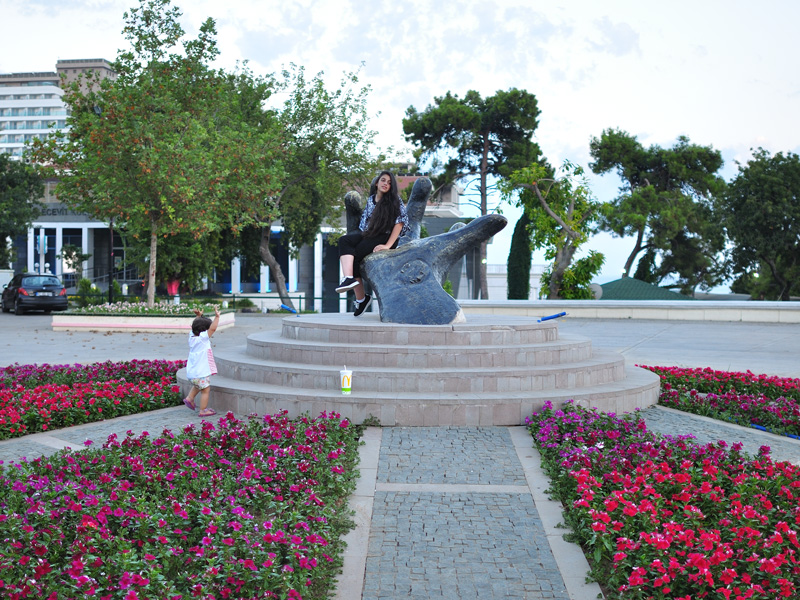 The Hand sculpture is in Karaalioglu Park in Antalya, Turkey